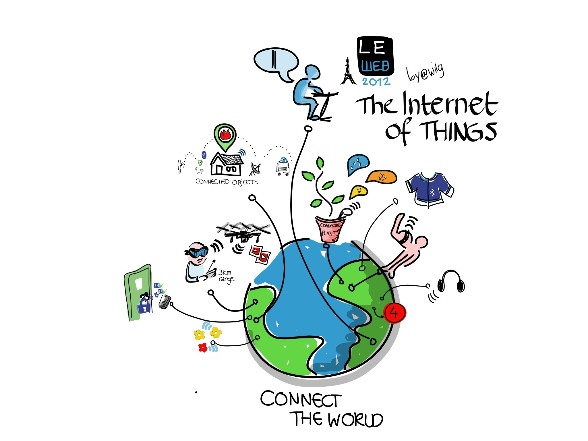 Draw that represents the Internet of Things, signed by the author